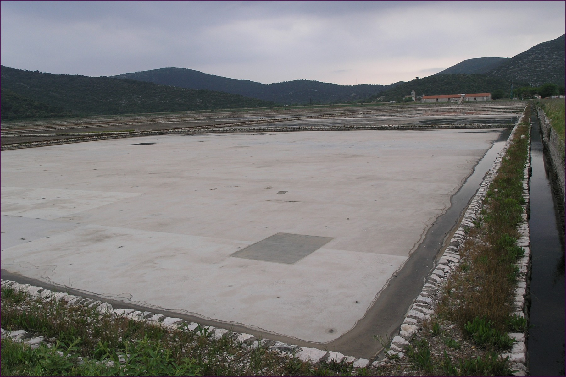 Croatia, Ston